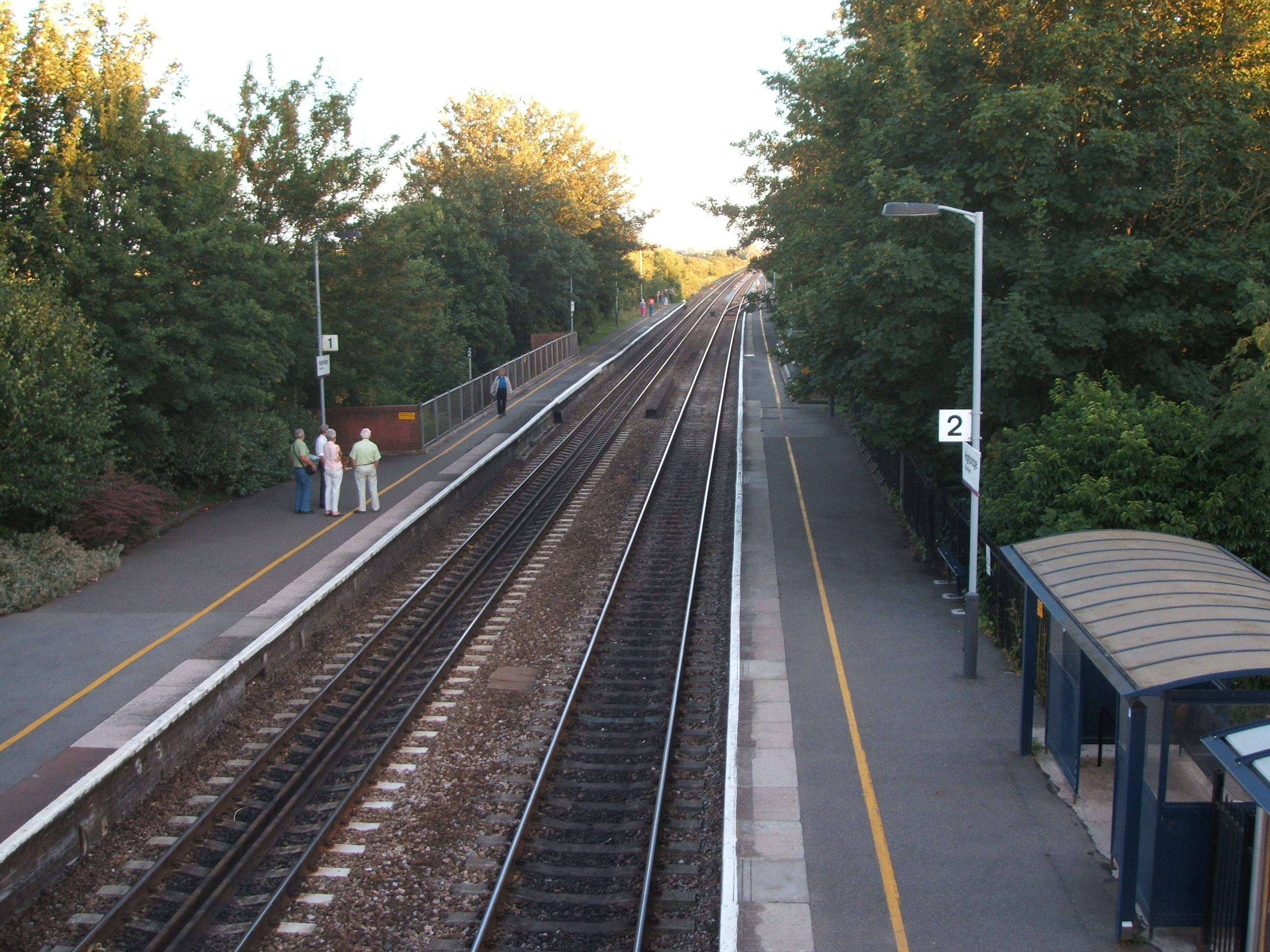 Highbridge & Burnham train station, taken on Sunday 23rd July 2006.